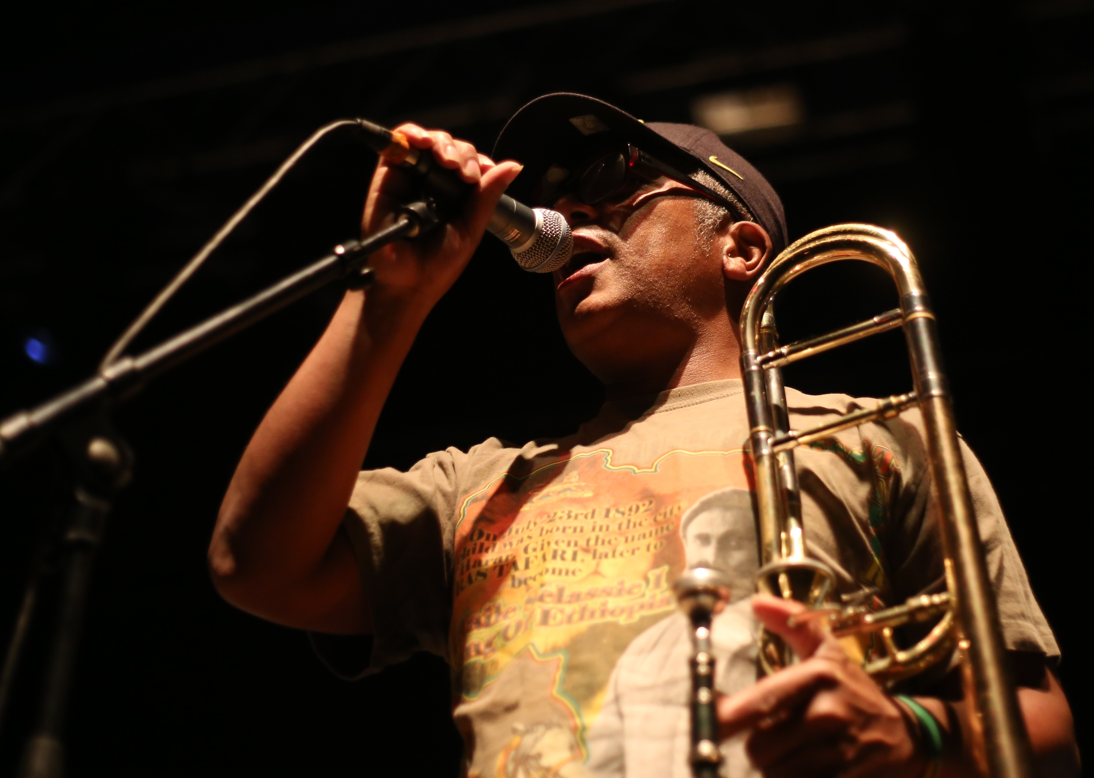 Horace Andy with band at Chiemsee Reggae Summer Festival 2013